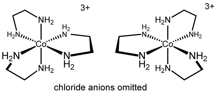 structure of tris(ethylenediamine)cobalt(III)